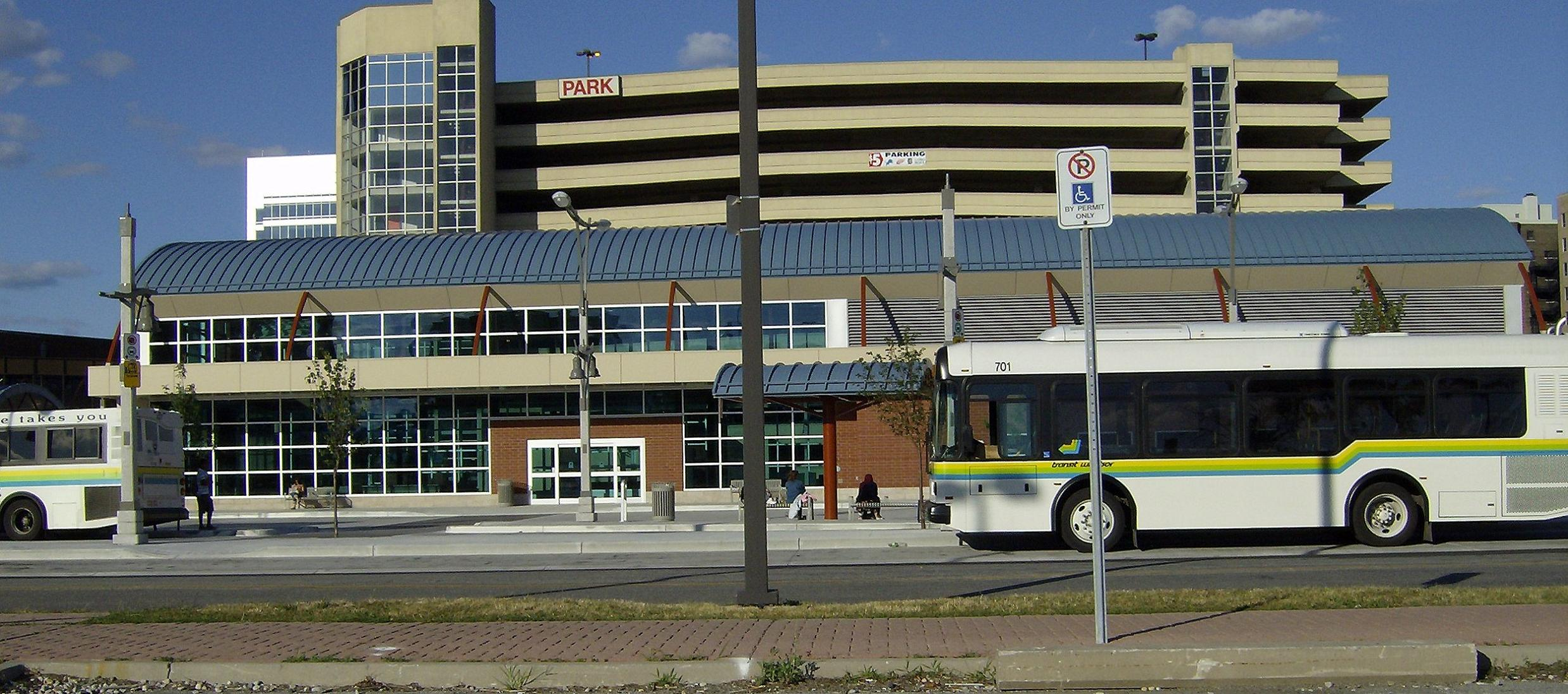 new bus terminal in Windsor, ON